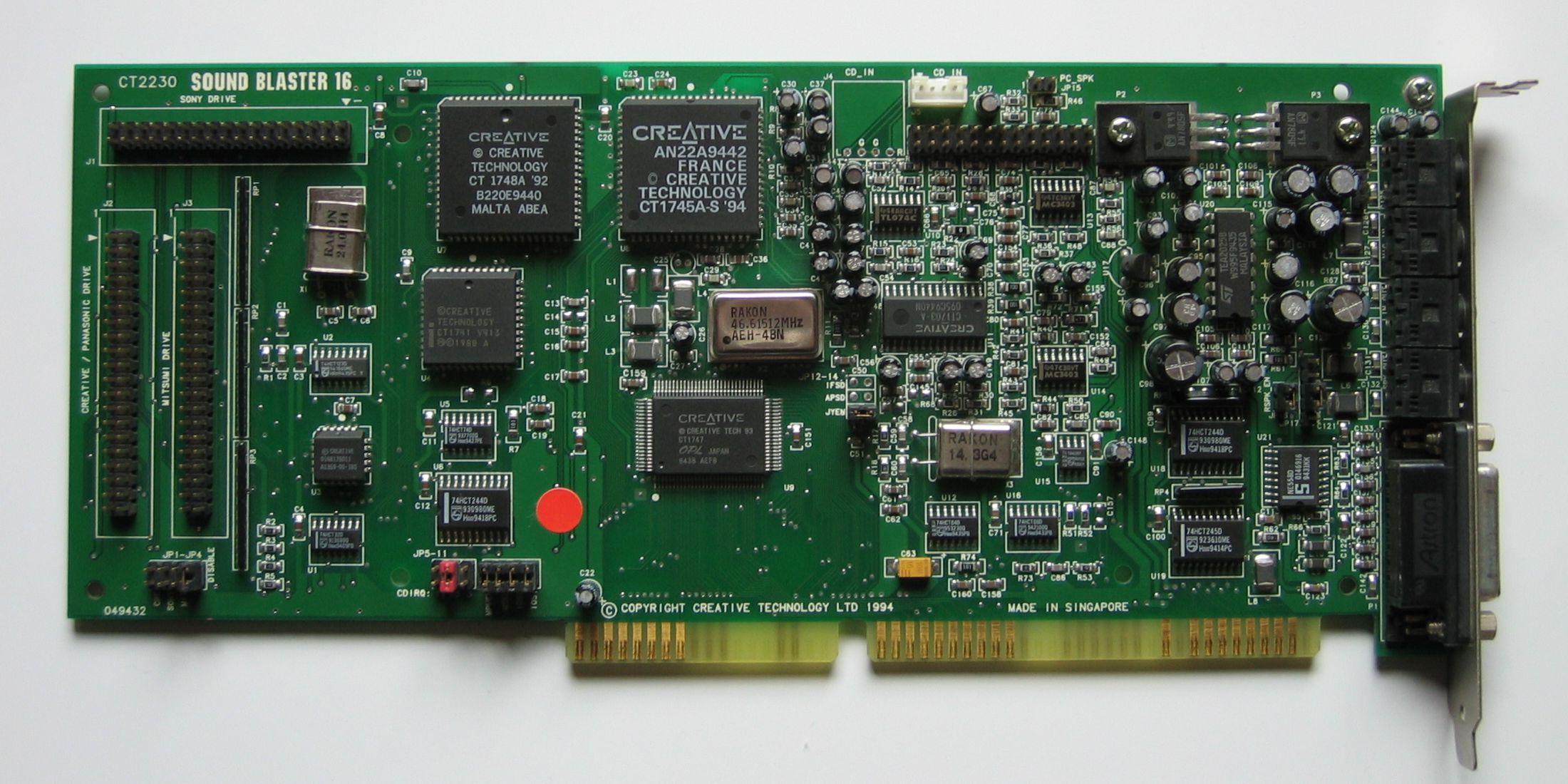 Soundblaster 16 MCD ASP (CT2230)